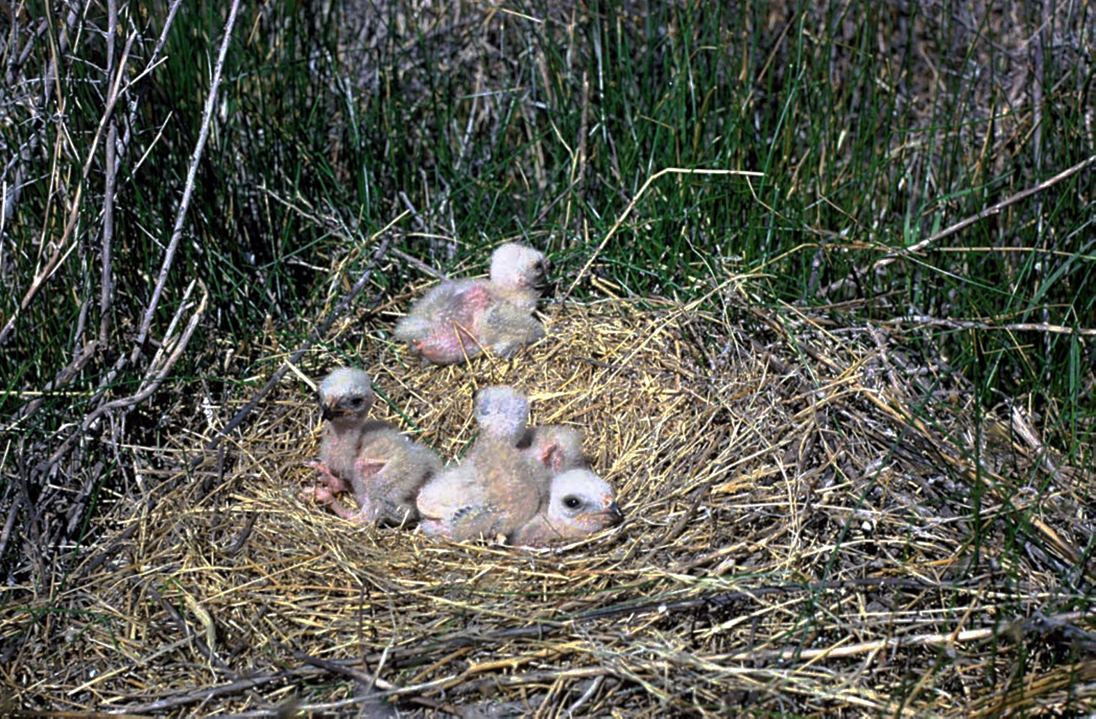 Northern Harrier (Circus hudsonius) nestling